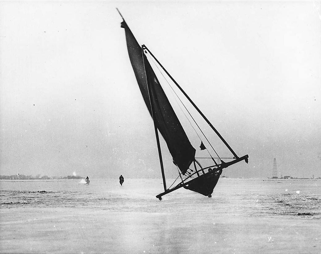 Iceboat and motorcycle race, Toronto Bay, Toronto, Ontario, Canada